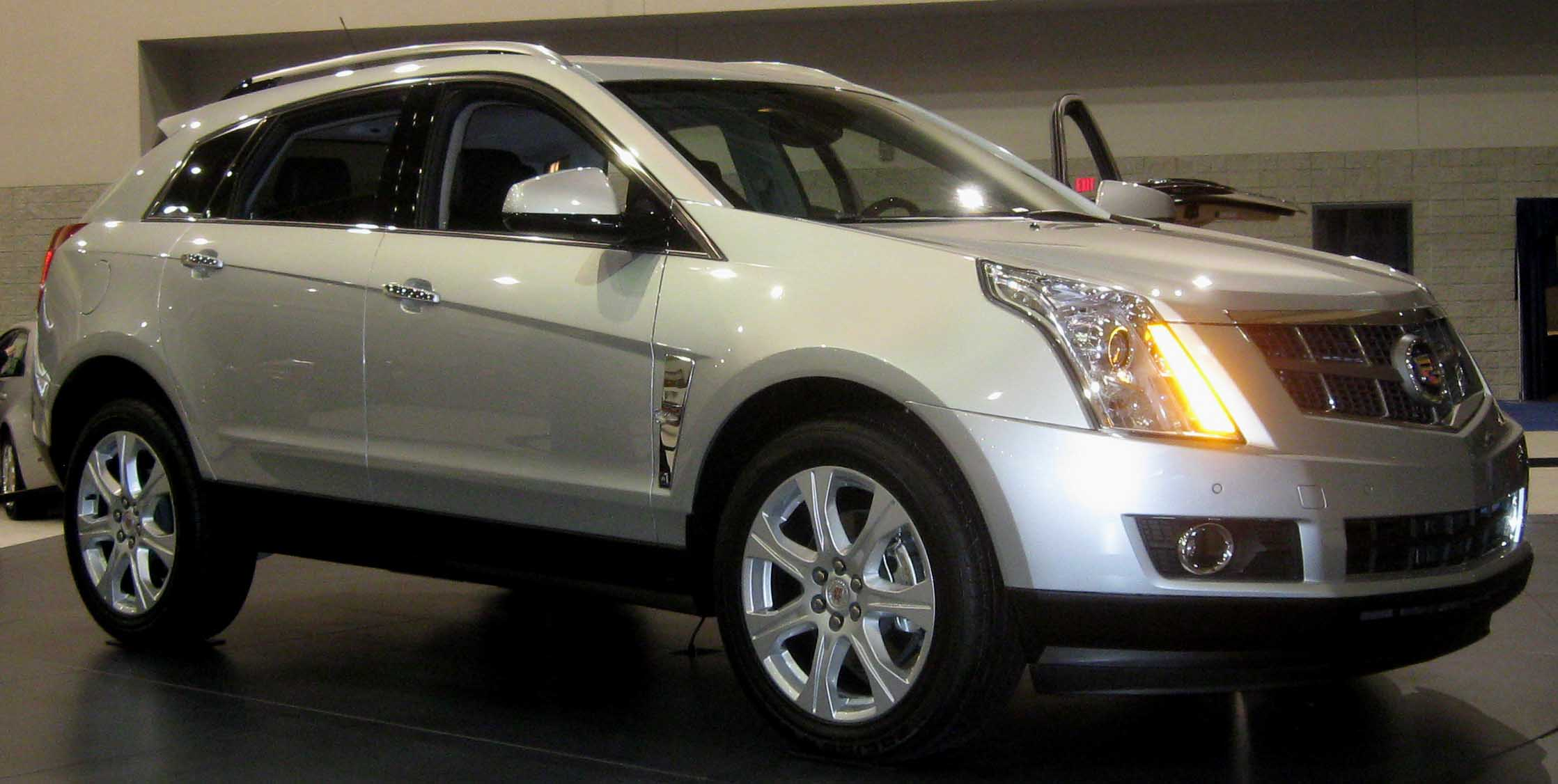 2010 Cadillac SRX photographed at the 2009 Washington DC Auto Show.